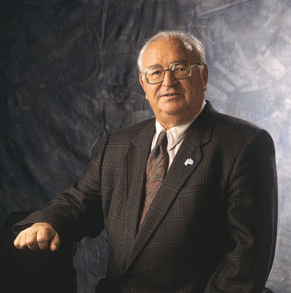 Portrait of Joseph (Joe) Saragossi